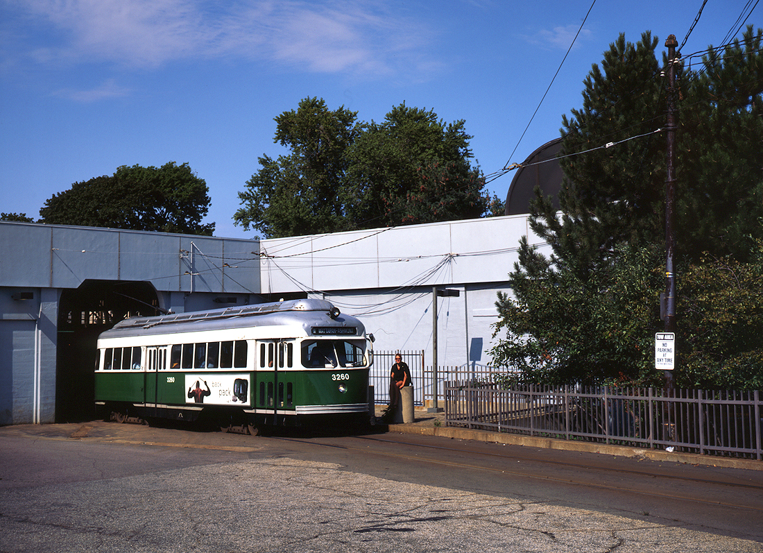 A PCC car leaving Ashmont station in September 1999